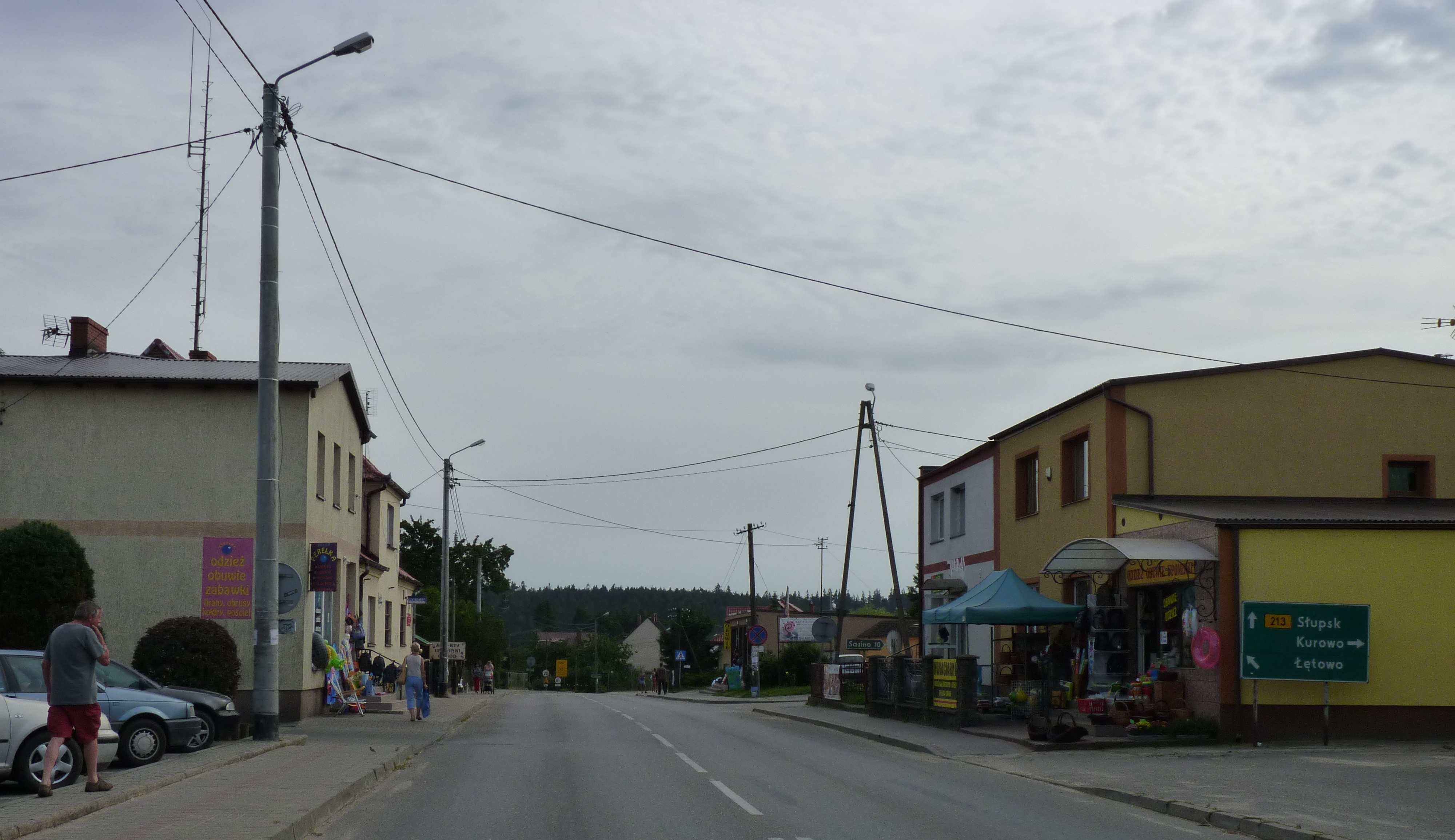 A view of the town of Choczewo in Poland from route 213, outside the Melan supermarket, facing south.